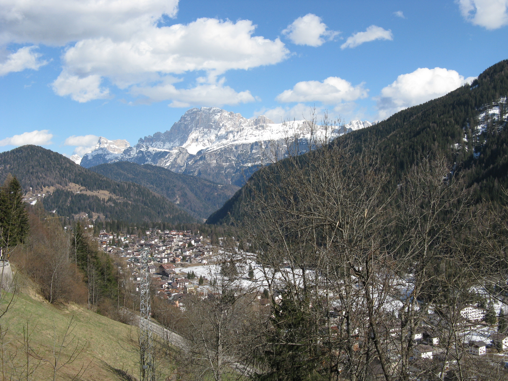 Falcade with Civetta